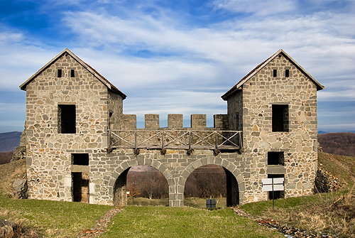 Praetoria gate of Porolissum city (Roman Empire), located in modern Romania (view from inside).